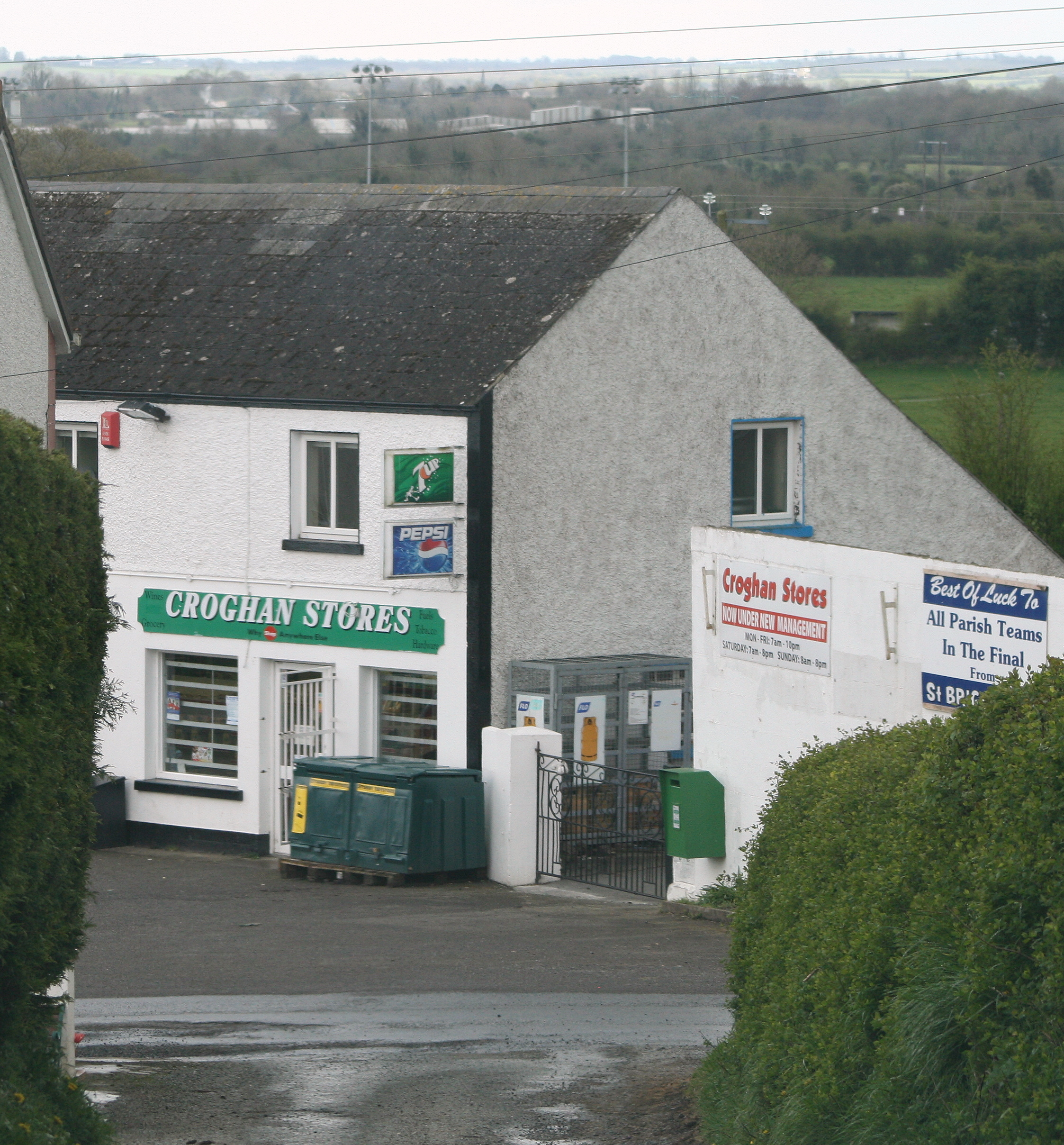 Looking down on Croghan village from Croghan Hill